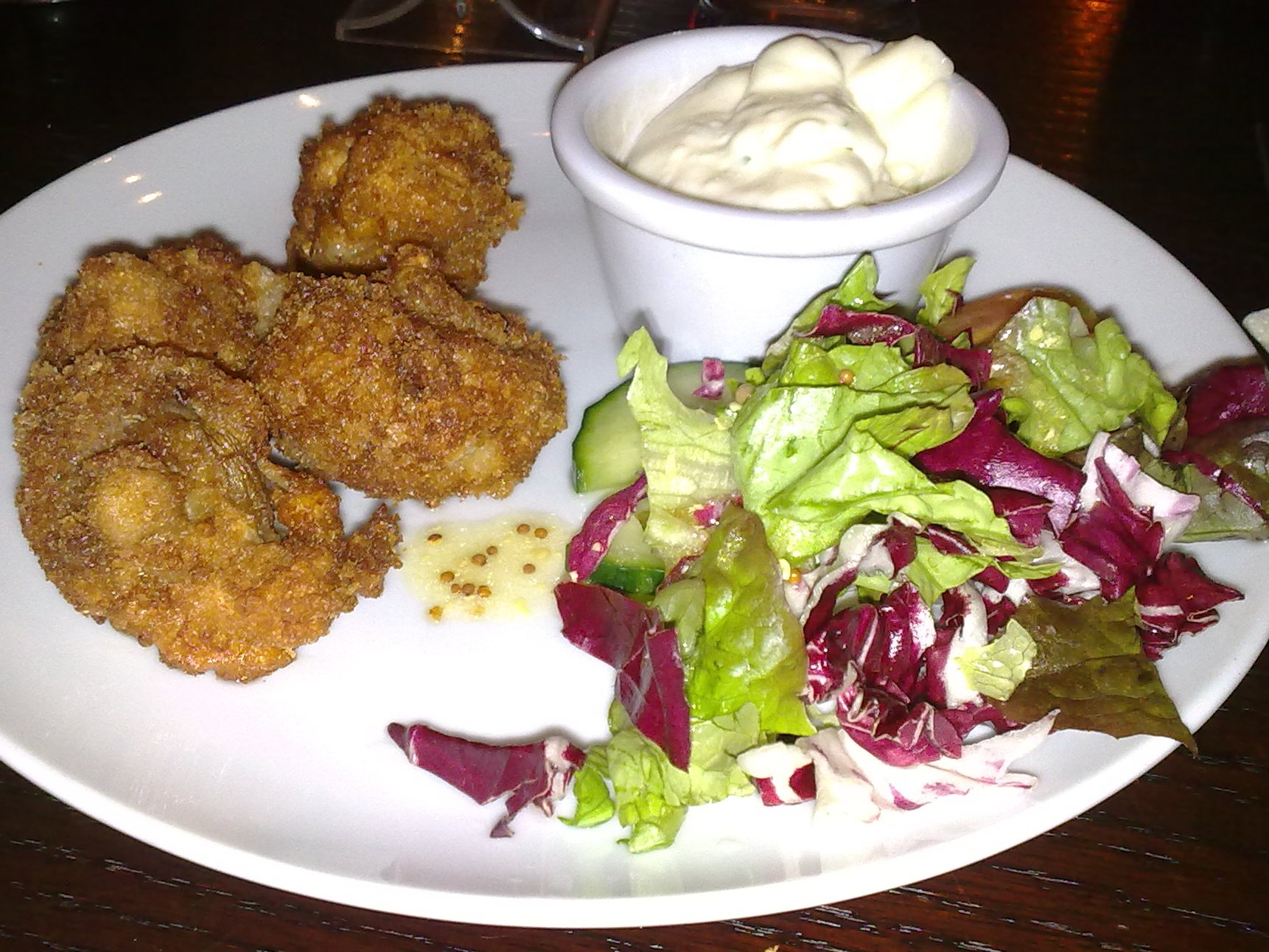 Breaded mushrooms in Derry.